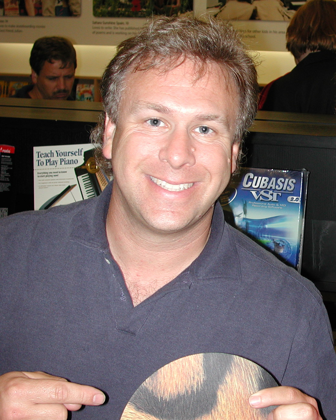 Photo of Phil Schiller at the Apple store in Palo Alto, CA